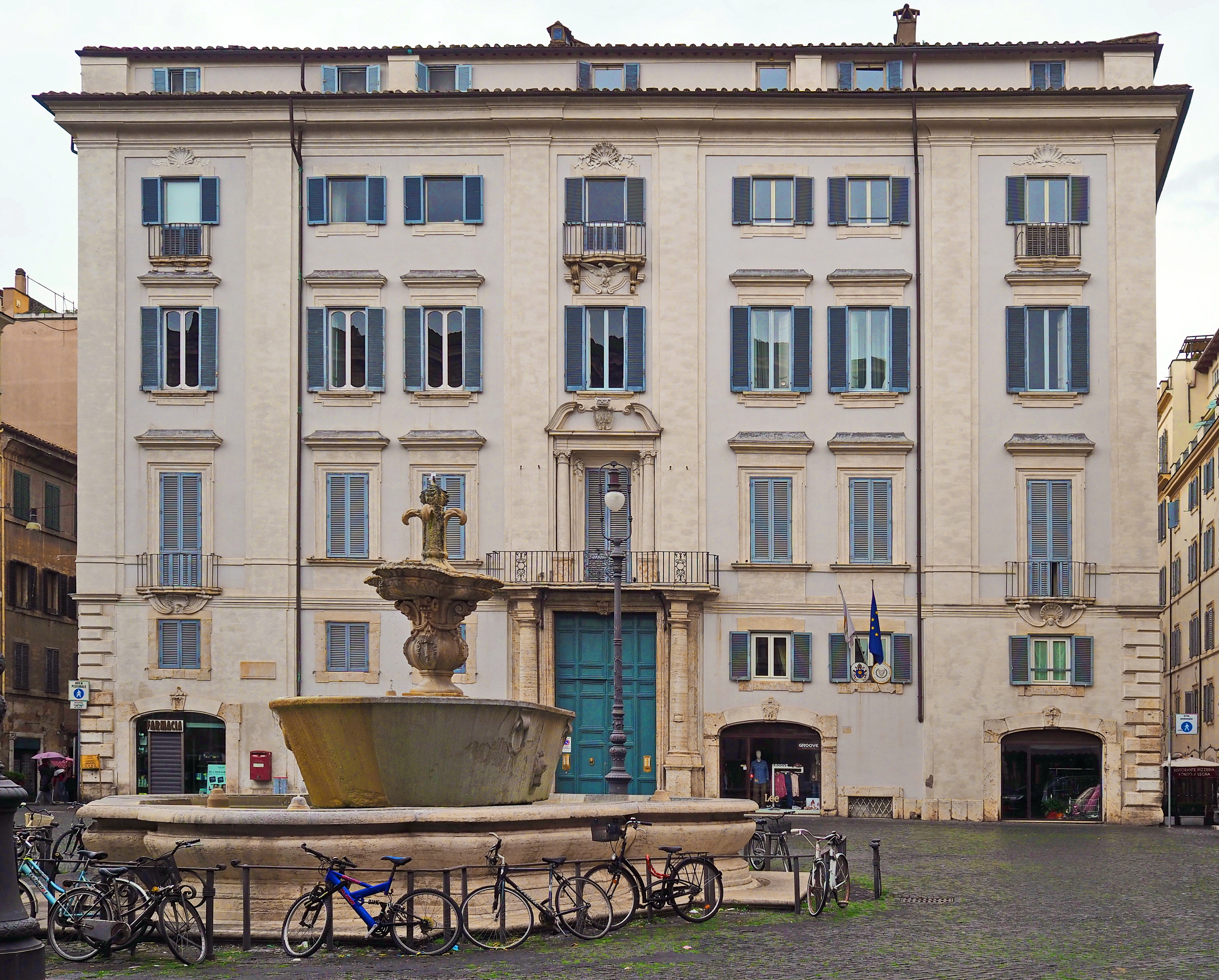 Piazza Farnese (Rome); Palazzo Picchini